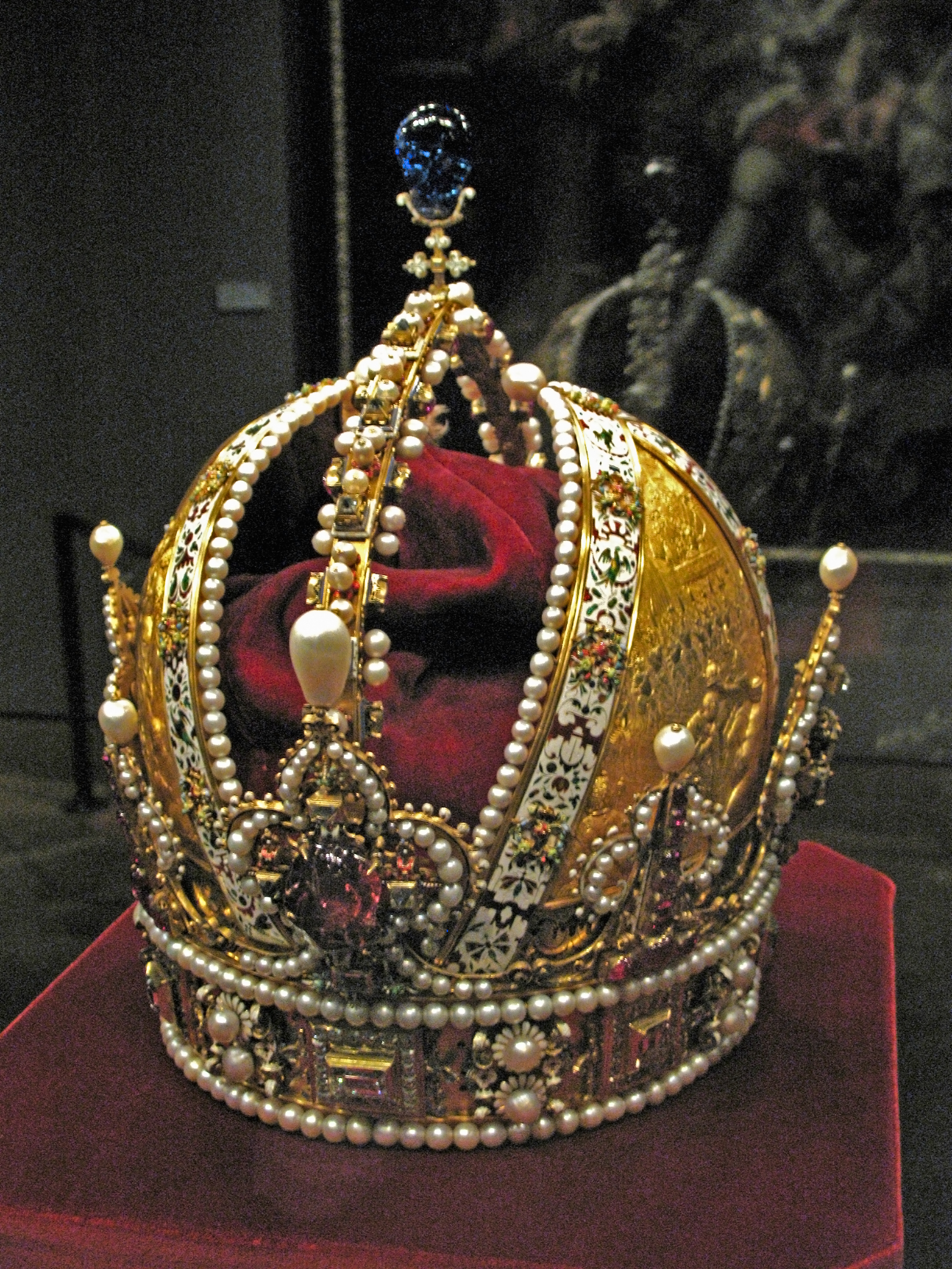 Imperial Crown of Austria, Imperial Treasury, Vienna, Austria